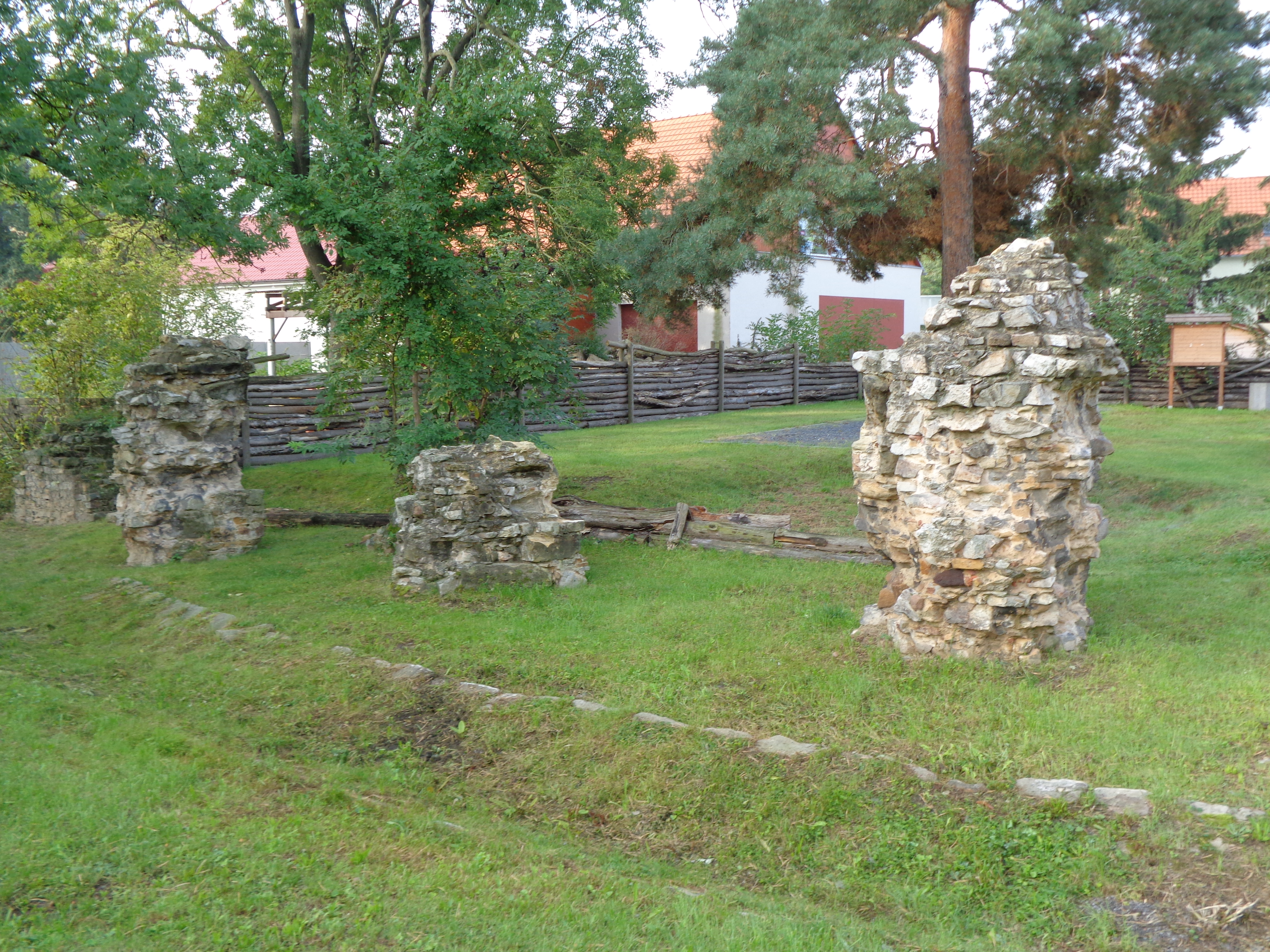 Tvrziště Zapských ze Zap